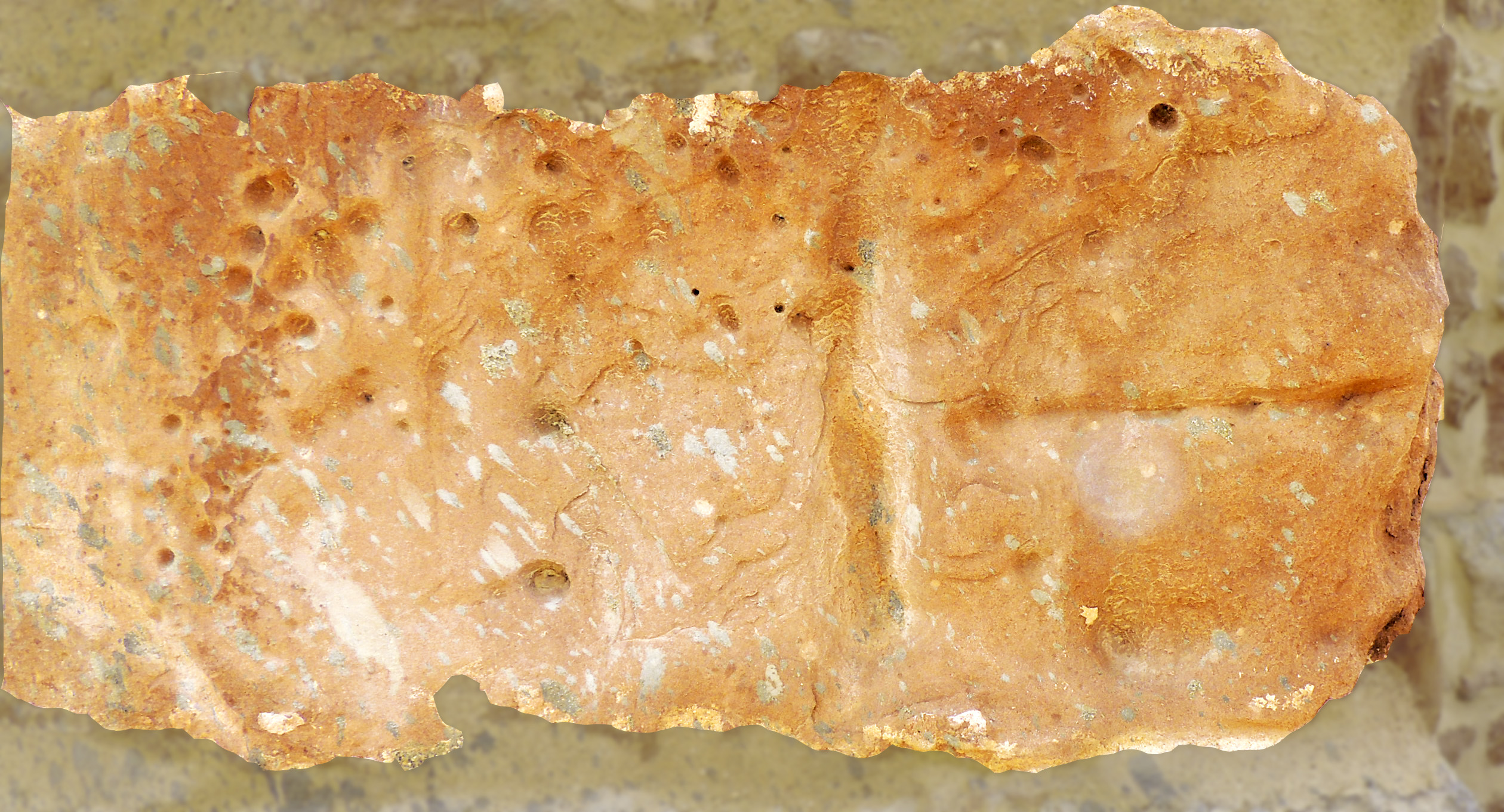 San Marín Obispo churche, Alcolea de las Peñas (Guadalajara), Castilla-La Mancha, Spain. Romanesque. Stonecutter mark.